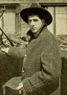 American author Jackson Gregory, on page 812 of the May 10, 1919 Moving Picture World.